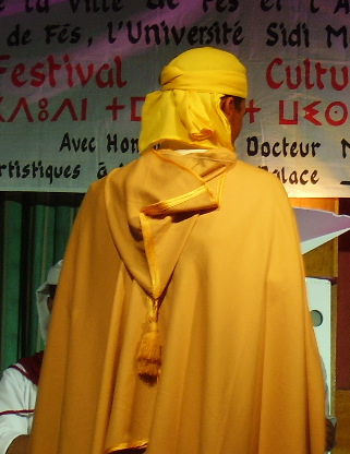 A Moroccan Amazigh wearing a burnous (back)